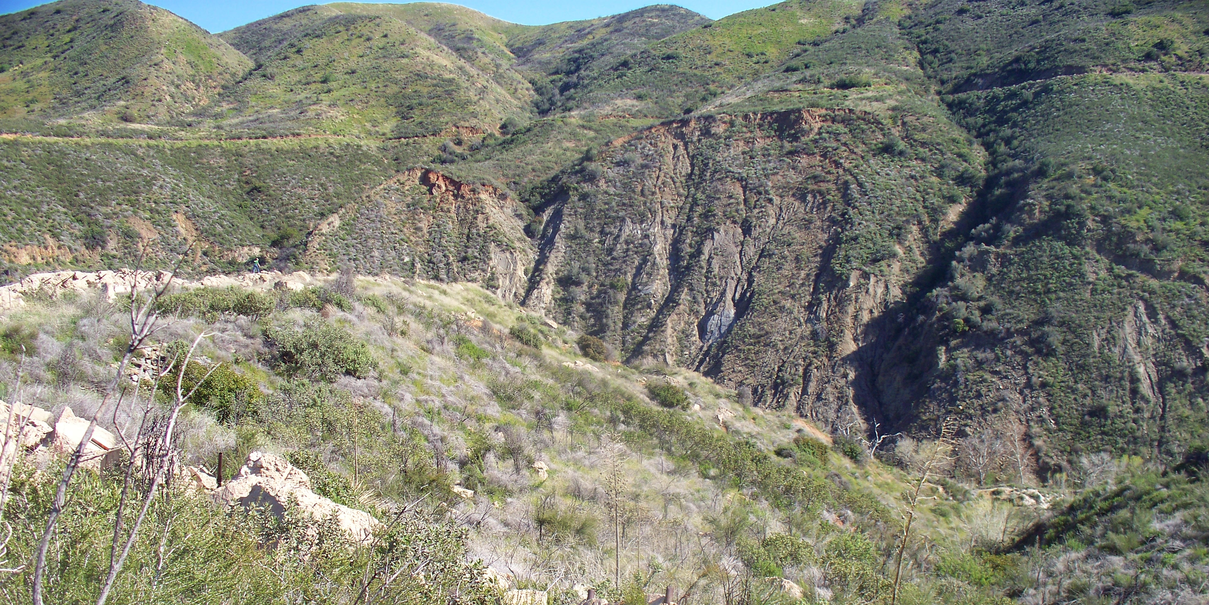 This photo shows the site of the St. Francis Dam in 2009, looking from northwest to southeast across San Francisquito Canyon. The remains of the wing dike made necessary by changes to the height of the dam while under construction are visible on the left. The area of paeleolandslide that contributed to the failure of the dam is visible on the far side of the canyon. This image differs from the original photograph in that it has been cropped and the color balance and saturation have been modestly enhanced.